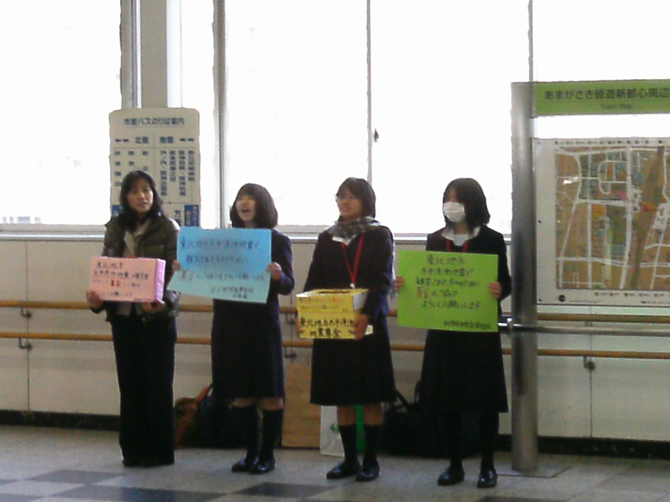 Charity of Touhoku-Tsunami_Shock at JR-West Amagasaki Station